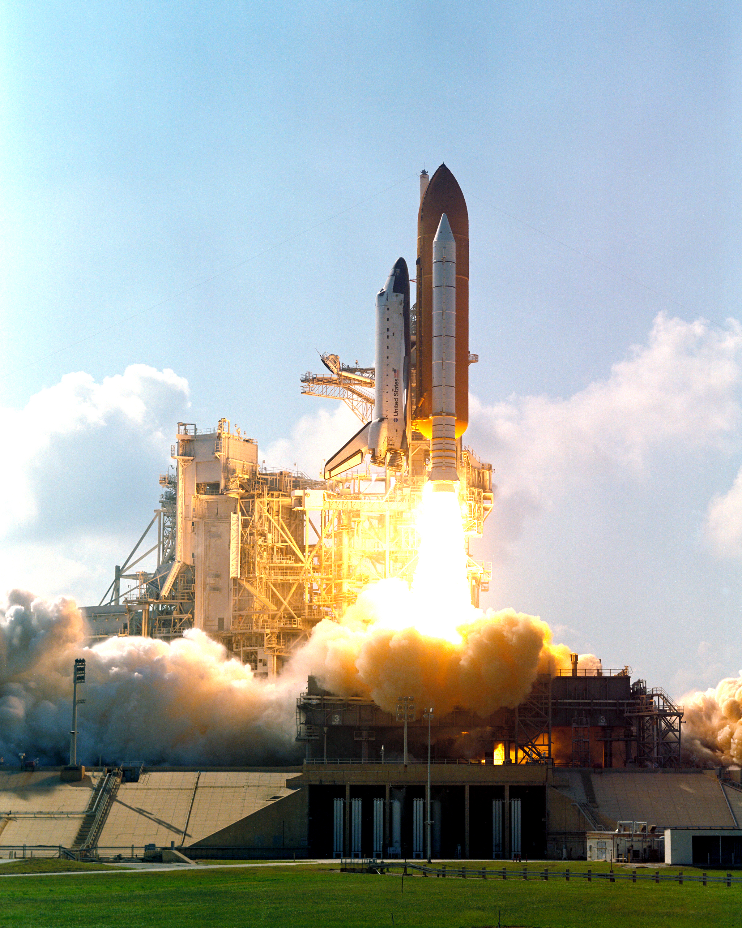 Space Shuttle Atlantis races toward space just after liftoff from Launch Pad 39B on mission STS-112. Liftoff occurred on time at 3:46 p.m. EDT. Along with a crew of six, Atlantis carries the S1 Integrated Truss Structure and the Crew and Equipment Translation Aid (CETA) Cart A to the International Space Station (ISS). The CETA is the first of two human-powered carts that will ride along the ISS railway, providing mobile work platforms for future spacewalking astronauts.